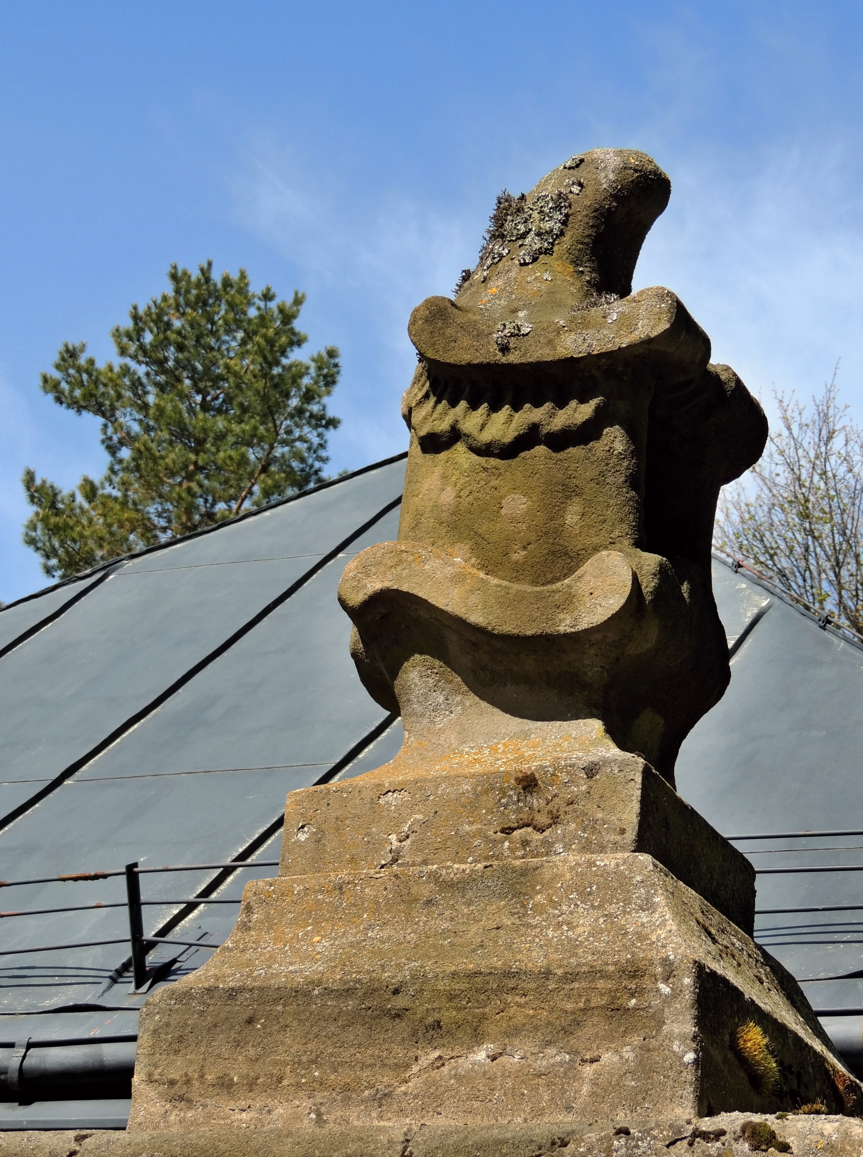 Stone sculpture (maybe it's a horse) on a prismatic pillar near the main gate to the hunting castle Karlštejn. Karlštejn on the cadastral territory of Svratouch is originally a hunting castle built between 1770 and 1775 in the style of Central European Baroque, the architecture of the castle is sometimes presented as a rococo style. Since 1958 is the castle a cultural monument and has been included in the catalog of the National Monument Institute. The castle complex is situated in the settlement location of Karlštejn, part of the village Svratouch, from an administrative point of view in the district of Chrudim belonging to the Pardubice Region in the territory of the Czech Republic. Photo-location: Czechia, Pardubice Region, the village of "Svratouch", the hill with named "Karlštejn", azimuth 205°.